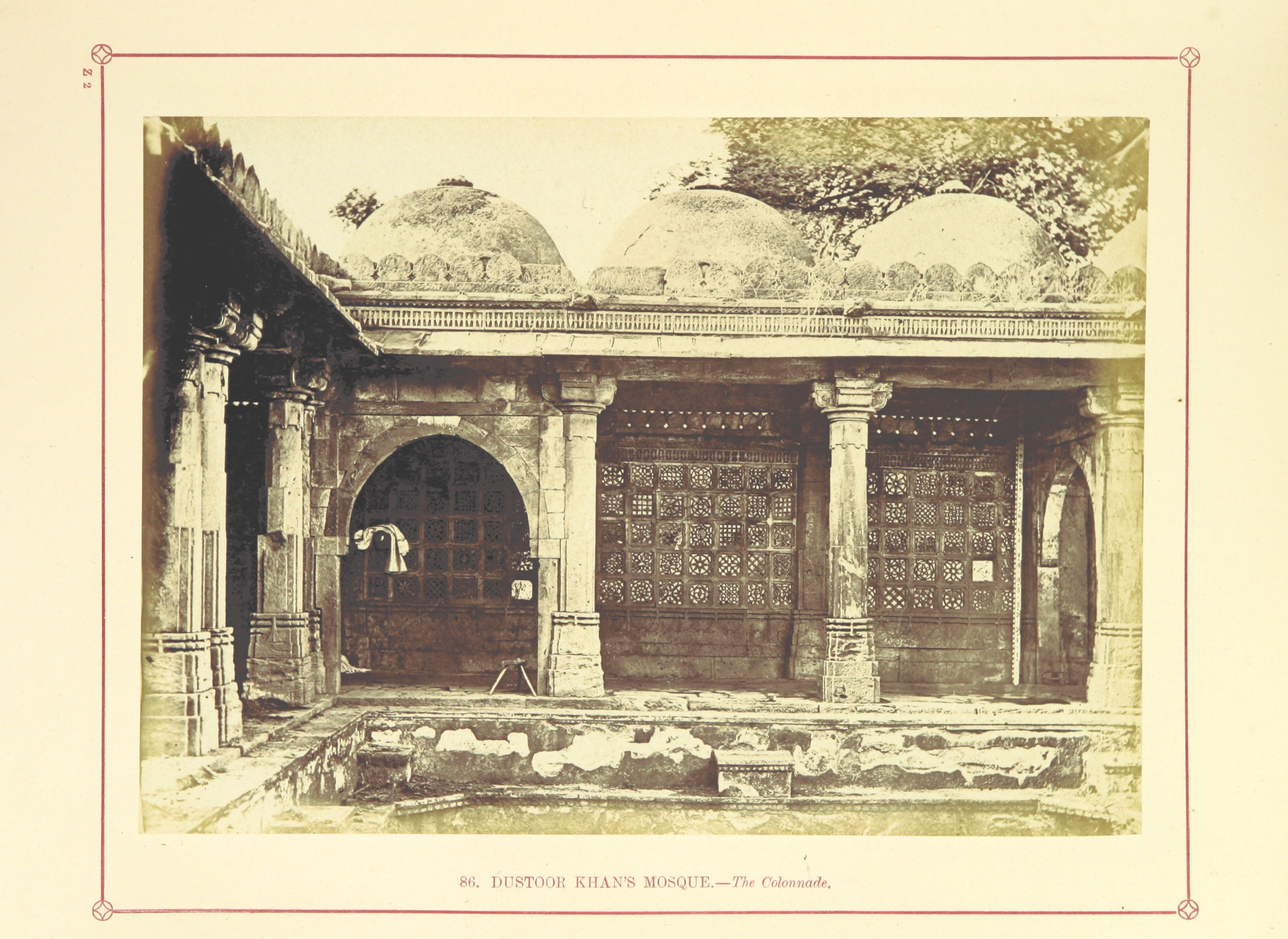 Image taken from: Title: "Architecture at Ahmedabad, the Capital of Goozerat, photographed by Colonel Biggs, ... With an historical and descriptive sketch, by T. C. H., ... and architectural notes by J. Fergusson, etc" Author: HOPE, Theodore Cracraft - Sir, K.C.S.I Contributor: BIGGS, Thomas. Contributor: FERGUSSON, James - Architect Shelfmark: "British Library HMNTS 10057.f.17.", "British Library OC V 6665" Page: 297 Place of Publishing: London Date of Publishing: 1866 Issuance: monographic Identifier: 001730119 Note: The colours, contrast and appearance of these illustrations are unlikely to be true to life. They are derived from scanned images that have been enhanced for machine interpretation and have been altered from their originals. If you wish to purchase a high quality copy of the page that this image is drawn from, please order it here. Please note that you will need to enter details from the above list - such as the shelfmark, the page, the book's volume and so on - when filling out your order. Following this or the link above will take you to the British Library's integrated catalogue. You will be able to download a PDF of the book this image is taken from, as well as view the pages up close with the 'itemViewer'. Click on the 'related items' to search for the electronic version of this work. Click here to see all the illustrations in this book and click here to browse other illustrations published in books in the same year. Please click on the tags shown on the right-hand side for other ways to browse the illustrations.